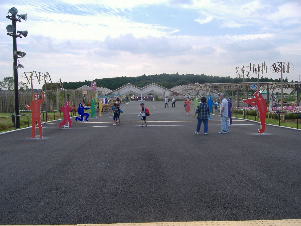 Kaikokuhaku Y150 Hillside area